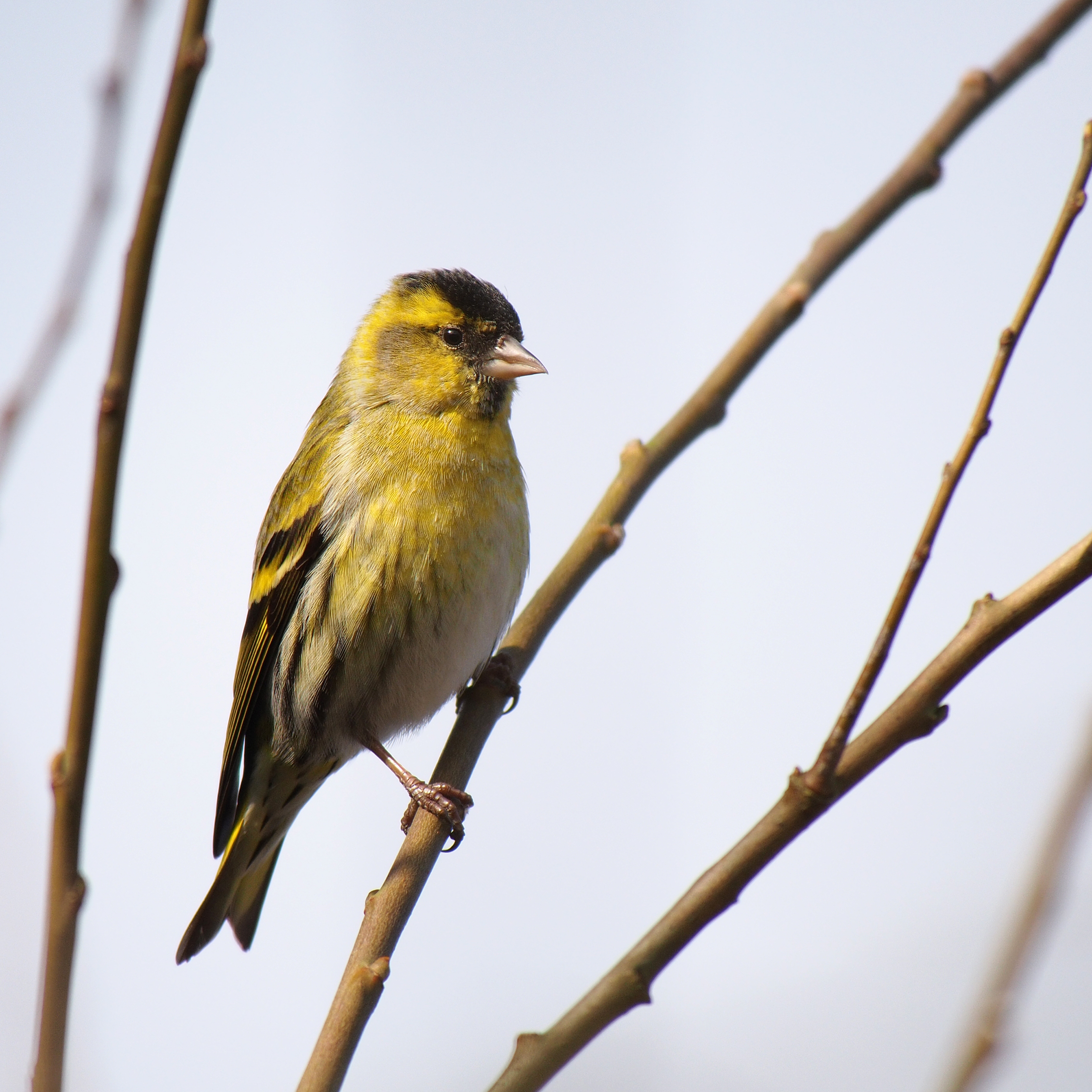 Eurasian Siskin Spinus spinus